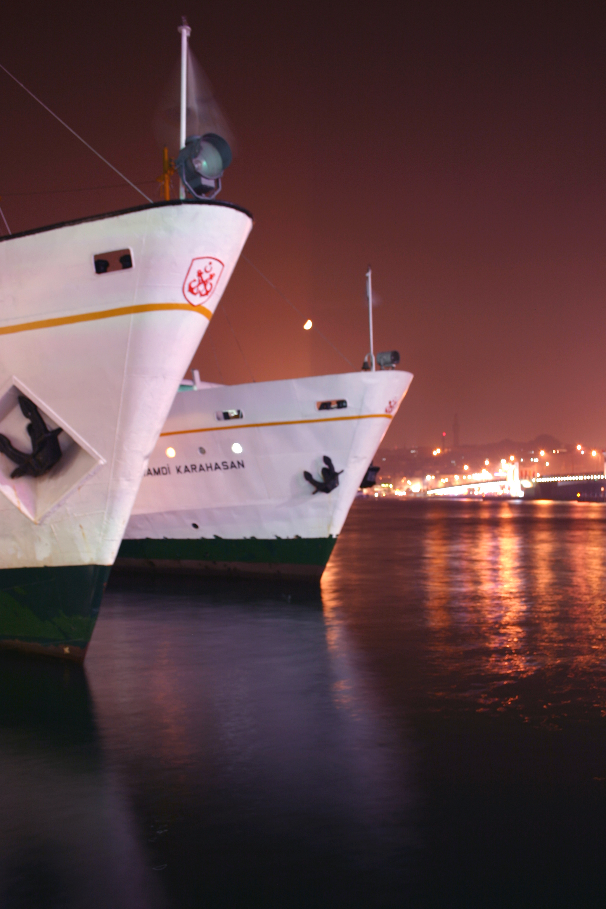 Ferries in the Golden Horn (Haliç) Karaköy, Istanbul, October 2006. Photo by Bertil Videt. Hamdi Karahasan IMO Number: 7816525 MMSI Number: 271002516 Callsign: TC5421 Length: 58 m Beam: 11 m